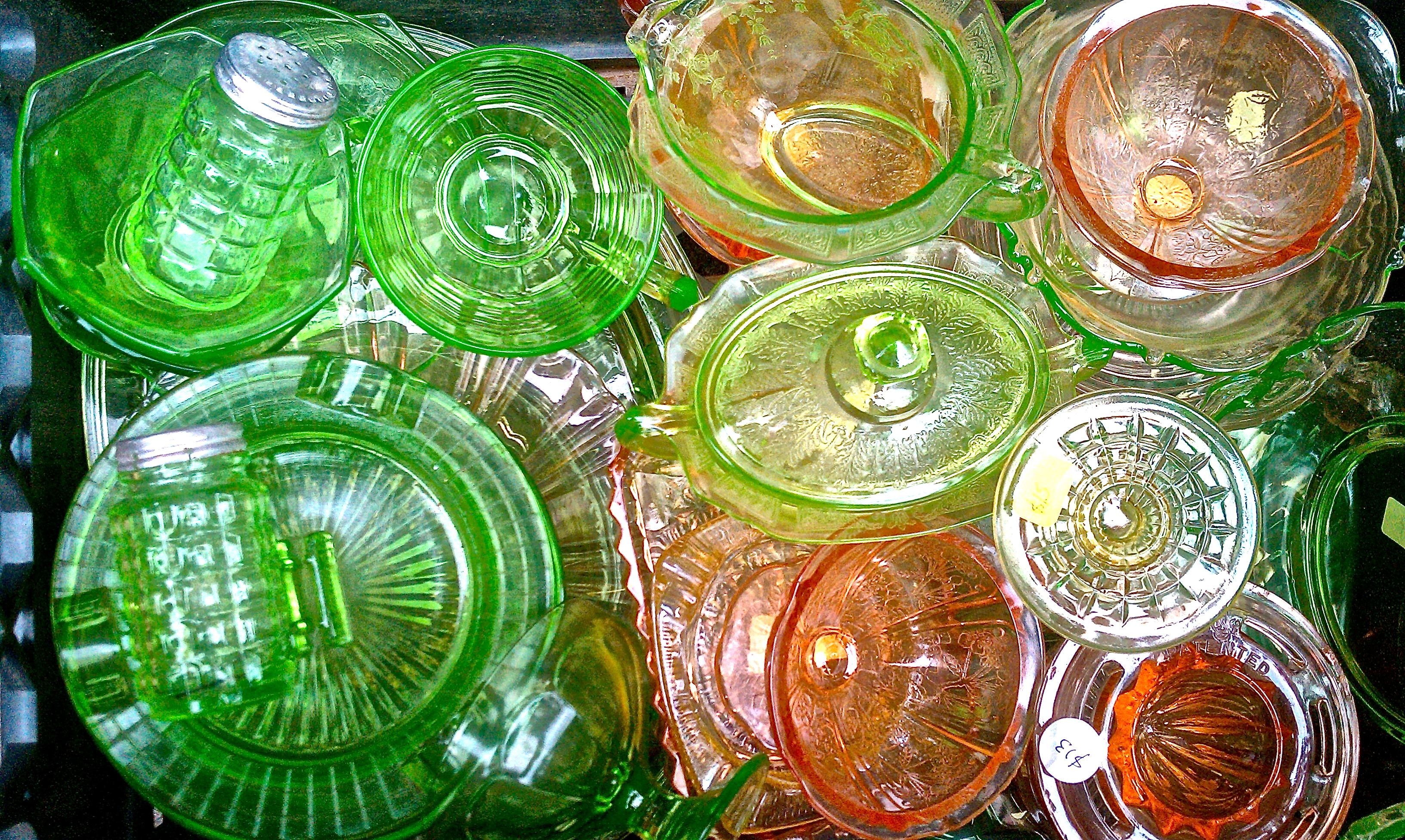 This is depressionware.